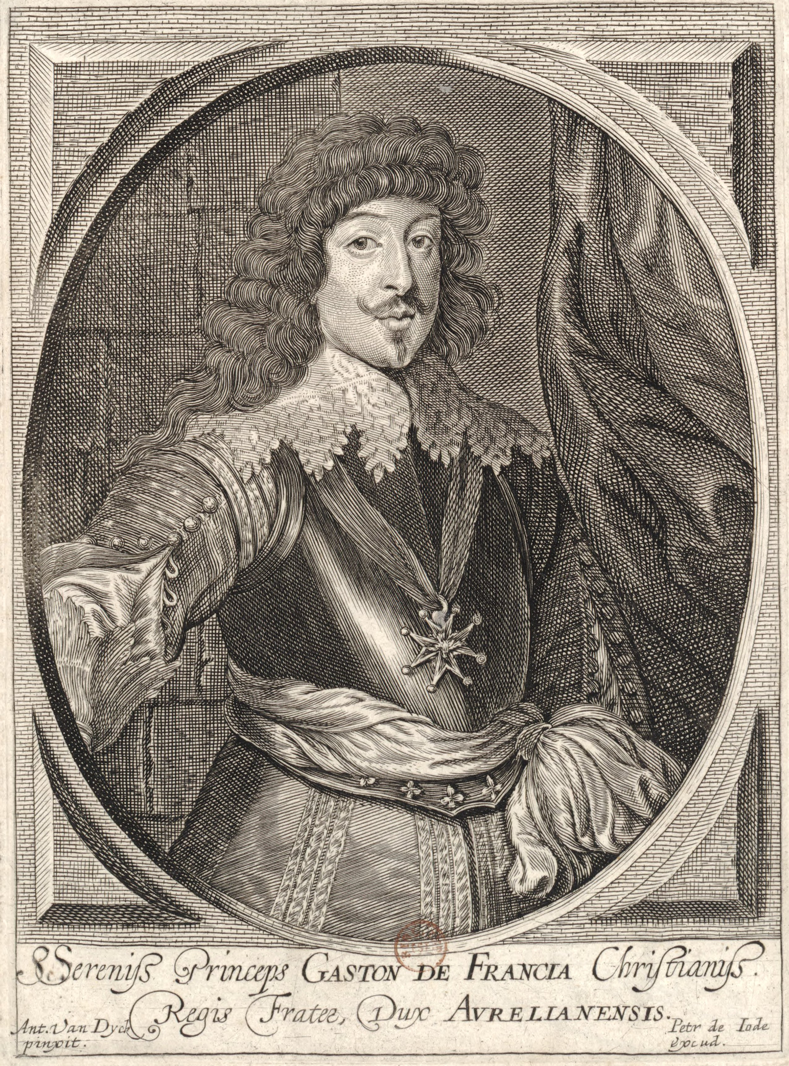 Engraving of Gaston de France, Duke of Orléans after a painting by "van Dyke".